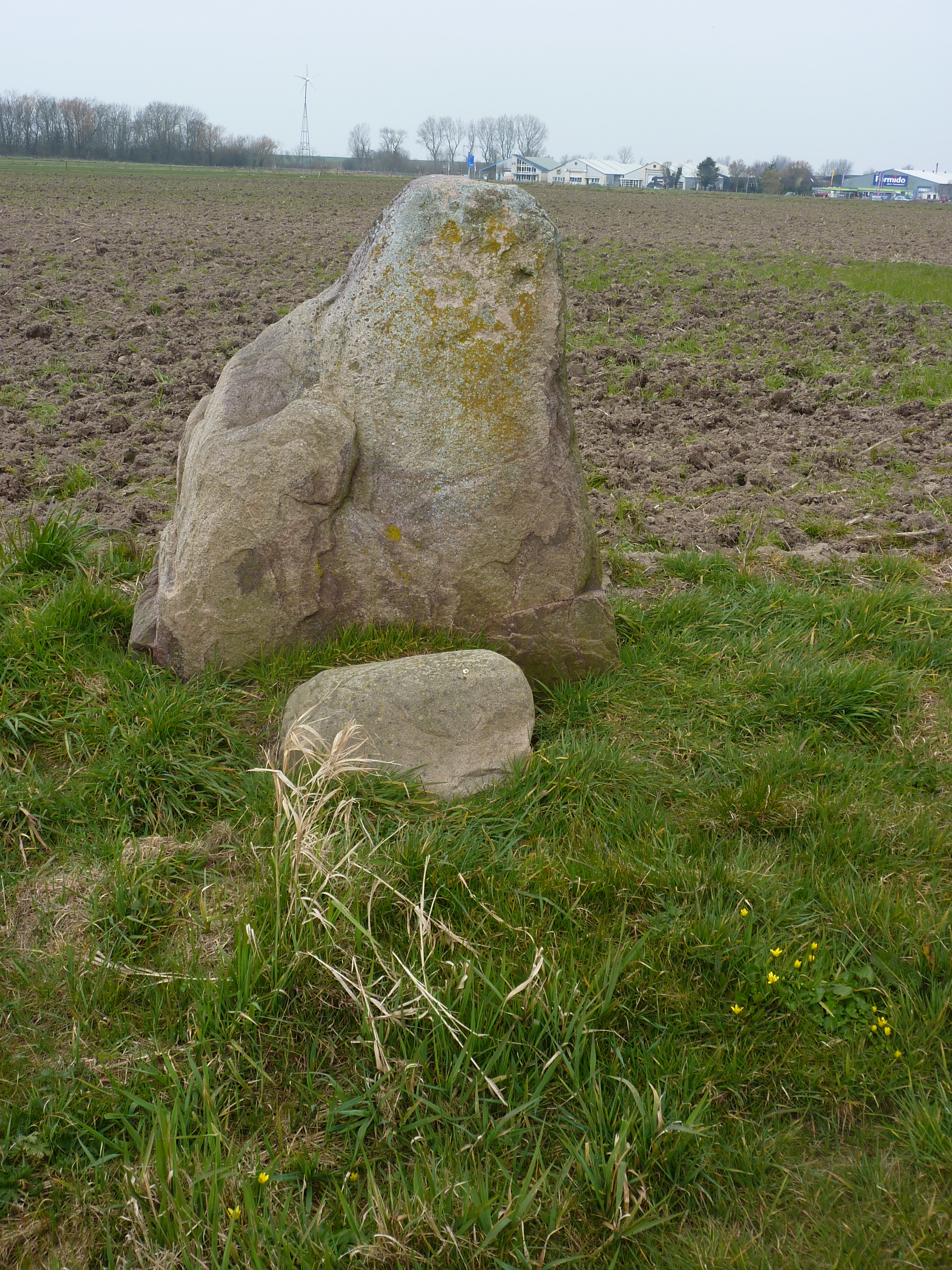 geological monument